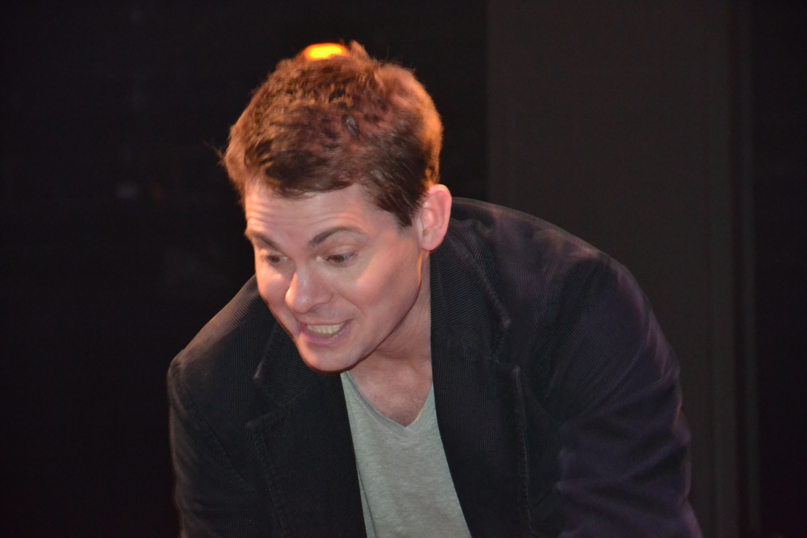 As The World Turns farewell event in Hilversum (The Netherlands)